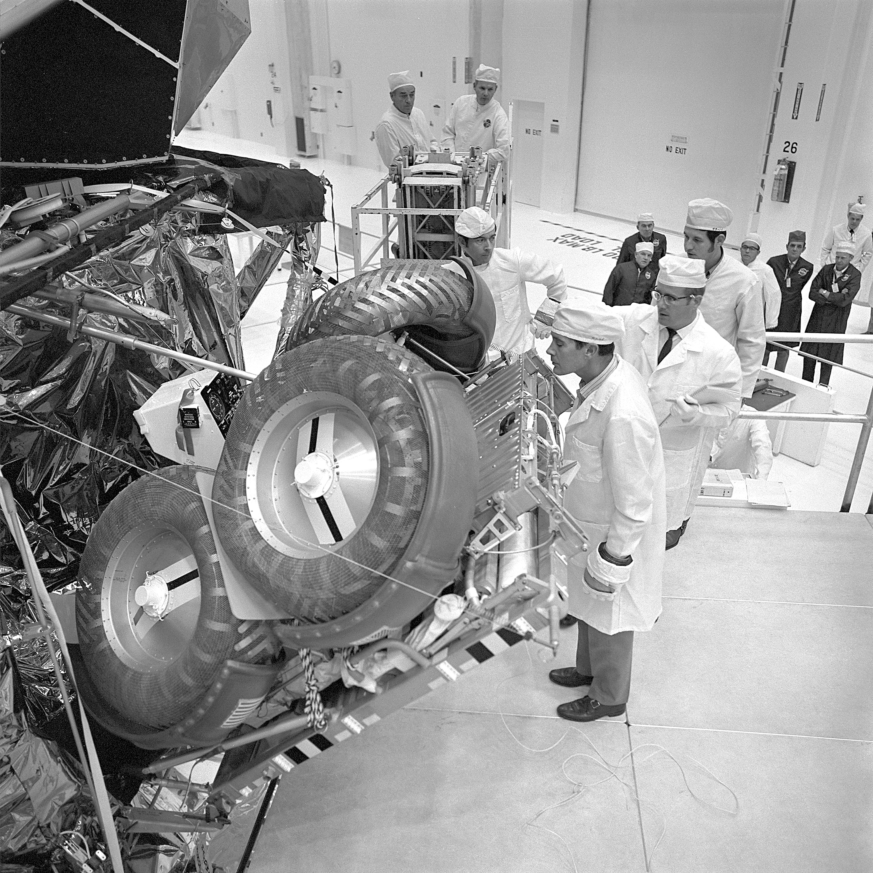 Apollo 16 Commander, John Young, center; and Lunar Module Pilot Charles Duke, foreground, inspect the Lunar Roving Vehicle they will use for transportation on the Moon during a Deployment Test in the Manned Spacecraft Operations Building at the Kennedy Space Center. The Rover is stored in the Descent Stage of the Lunar Module for the trip to the Lunar surface. This inspection came during a review of Apollo Lunar Surface Experiments at the Spaceport. Launch is set for March 17.